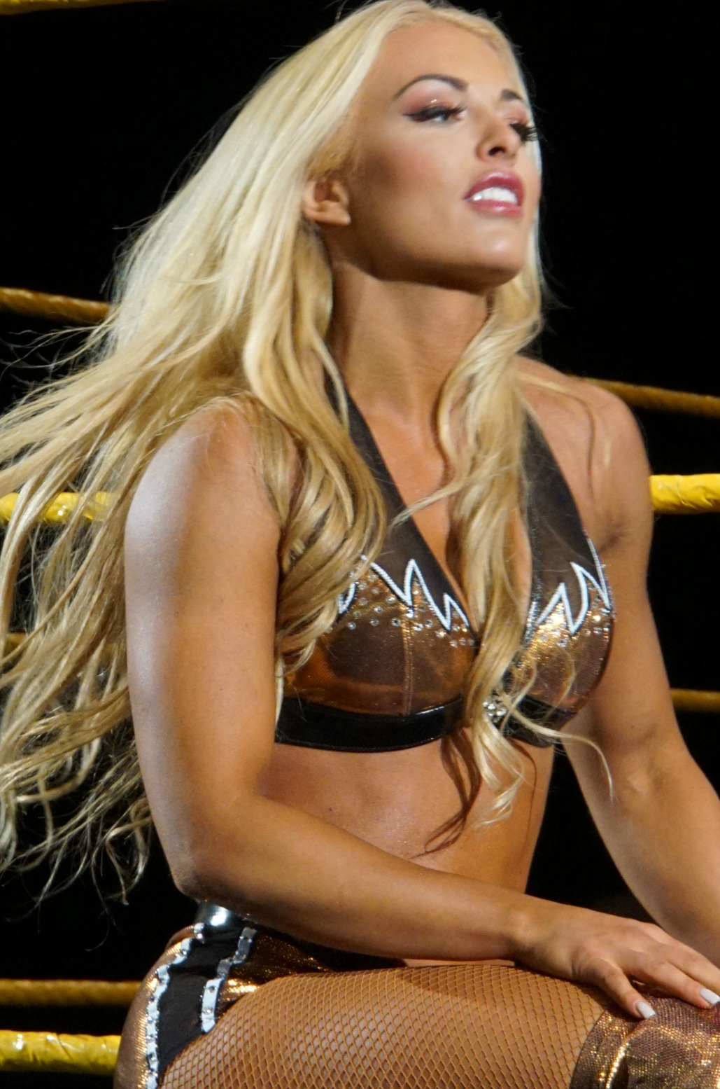 Mandy Rose during the WrestleMania 32 Axxess in April 1, 2016.